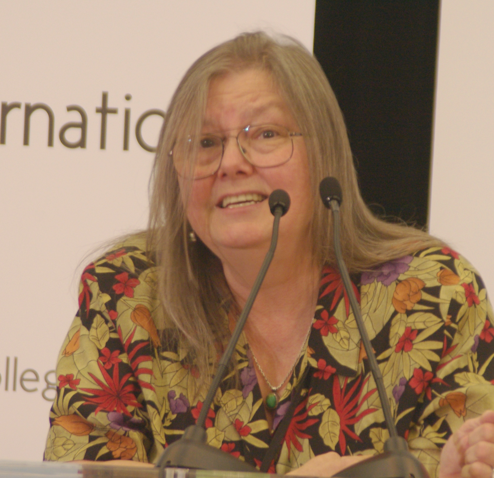 American writer Dorothy Allison at the Miami Book Fair International 2011